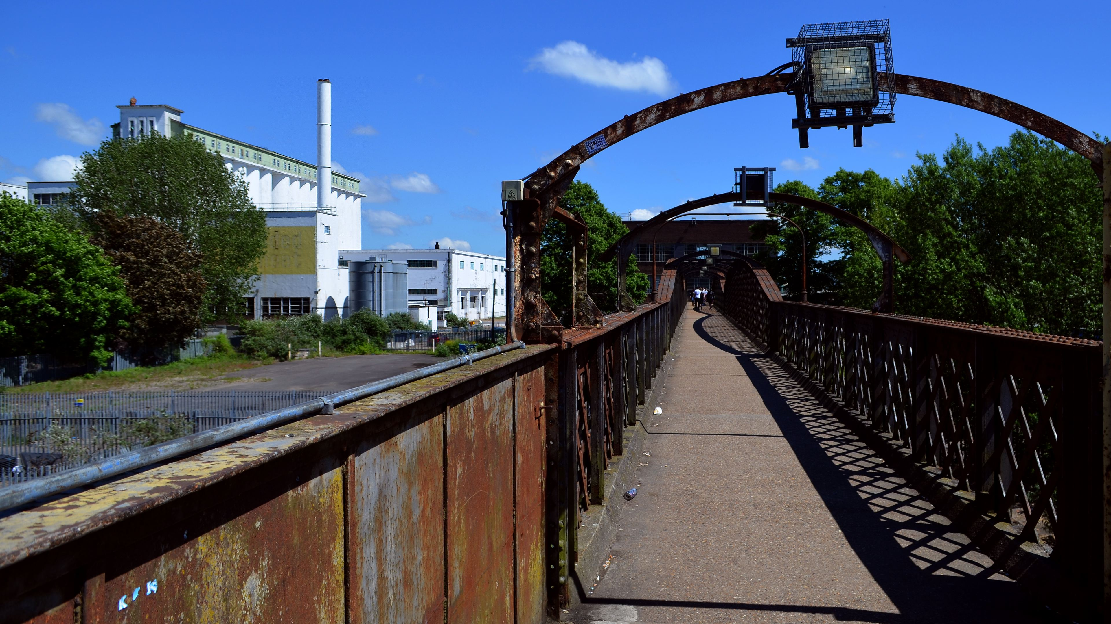 Former Shredded Wheat factory in Welwyn Garden City viewed from the bridge over the tracks of the railway station in May 2017.